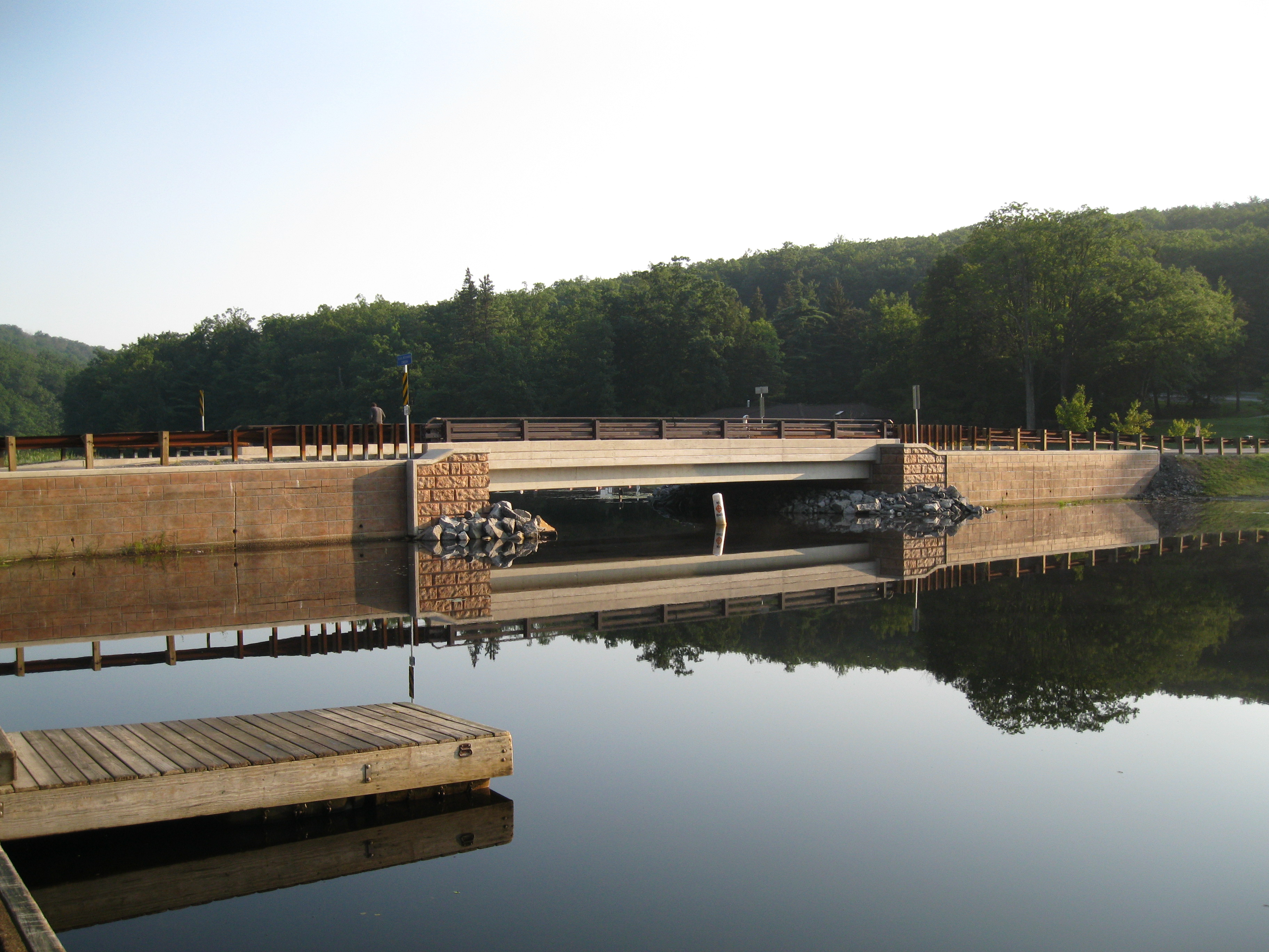 New bridge for Pennsylvania Route 504 over Black Moshannon Creek in Black Moshannon State Park, near Phillipsburg, Rush Township, Centre County, Pennsylvania, USA.